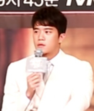 (TV TEN) tvN 연극이 끝나고 난 뒤 제작발표회 - 하석진 & 비투비 이민혁의 말말말!